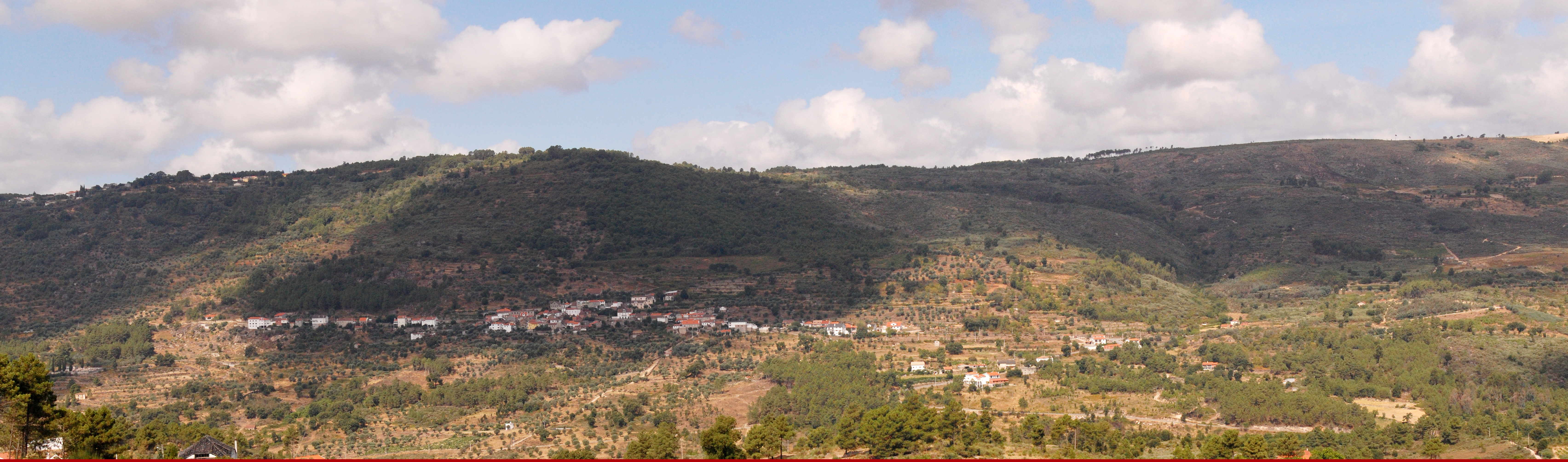 large view of Sobral Pichorro (Pt)